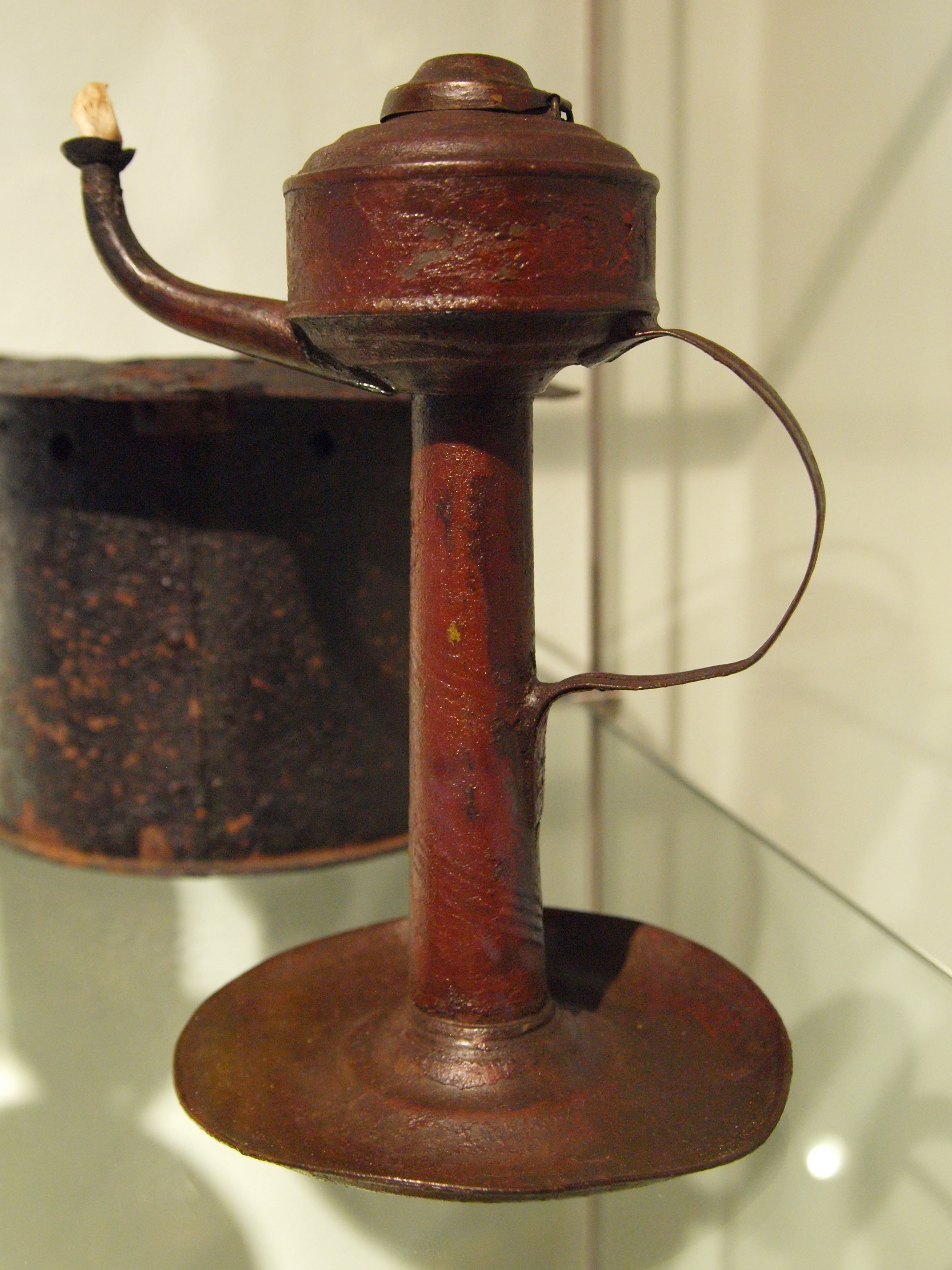 Whale oil lamp of the 18th/20th century. Photographed at Dithmarscher Landesmuseum Meldorf, Schleswig-Holstein, Germany. Iron with cotton wicker.